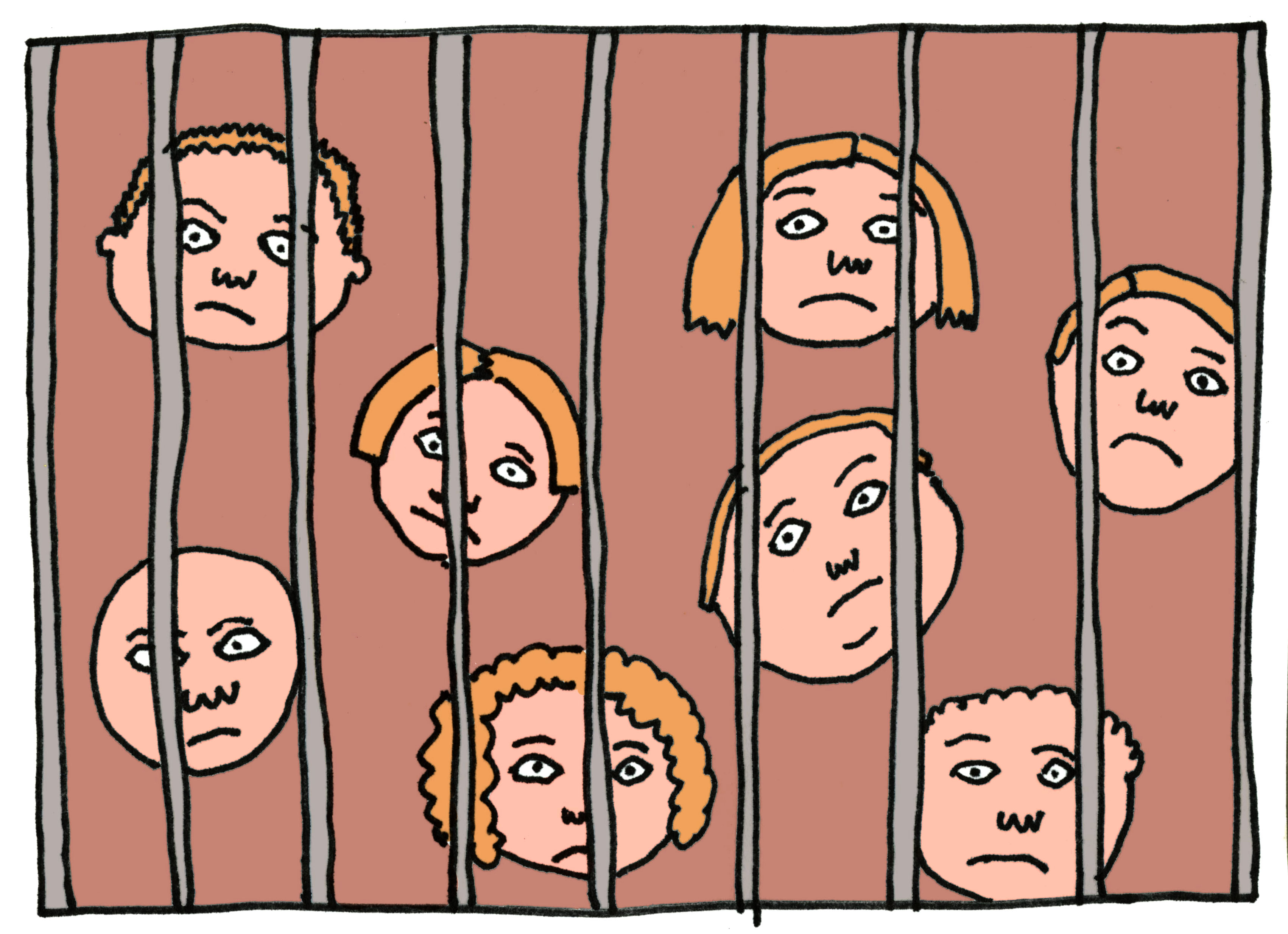 sippenhaft. a family in prison